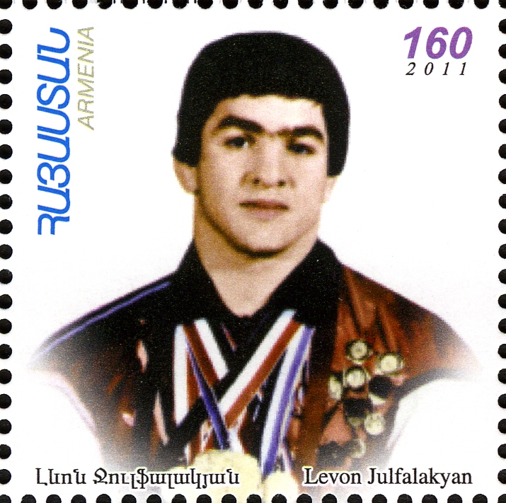 Sport - Olympic Champions - Hrachya Petikyan